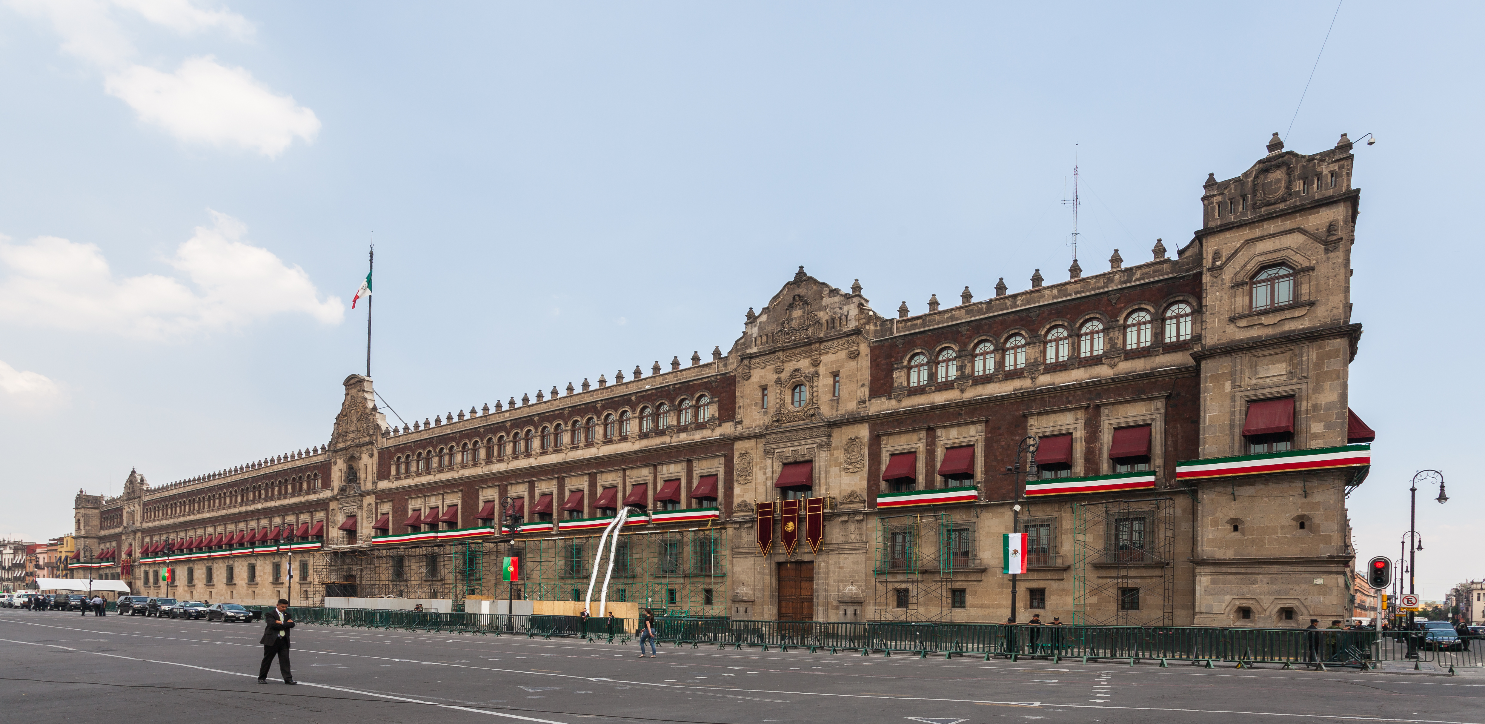 National Palace, México D.F., México